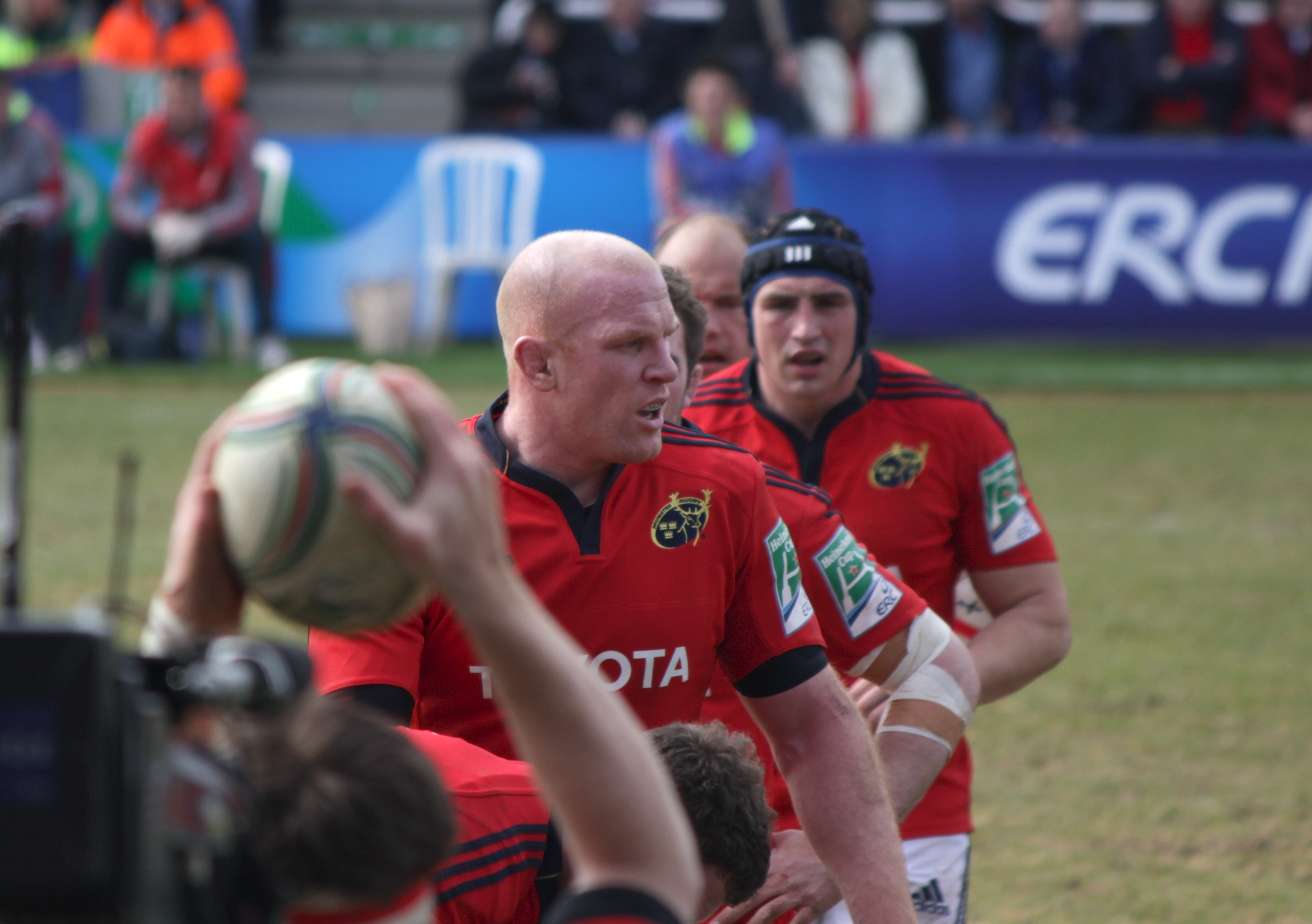 Munster Rugby's Paul O'Connell preparing for a lineout in the Heineken Cup quarter final against Harlequins.